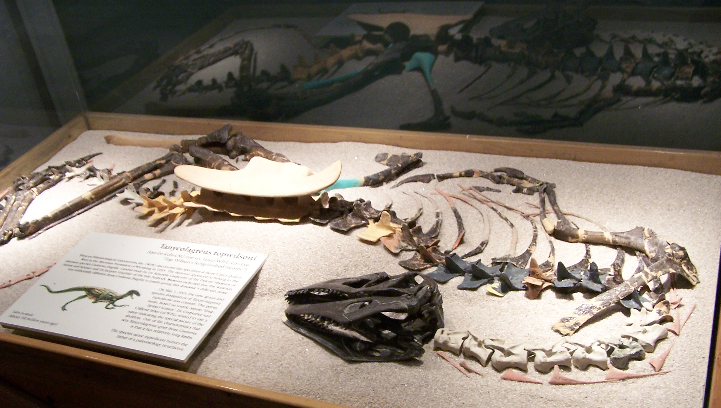 Tanycolagreus fossil holotype TPII 2000-09-29, North American Museum of Ancient Life.